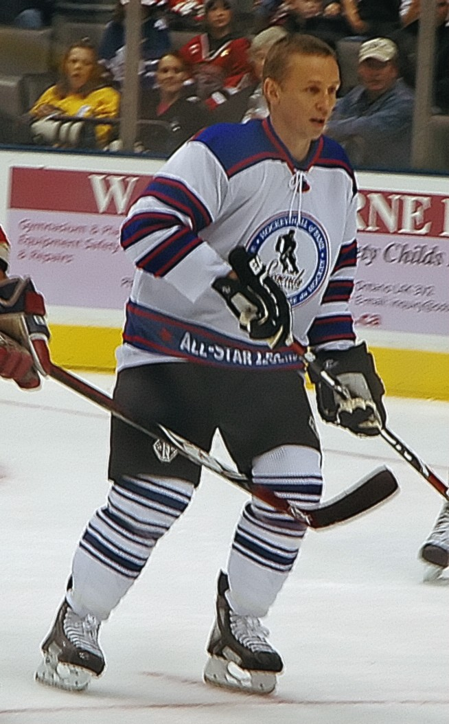 Igor Larionov played with the All-Star Legends 2008 in Toronto